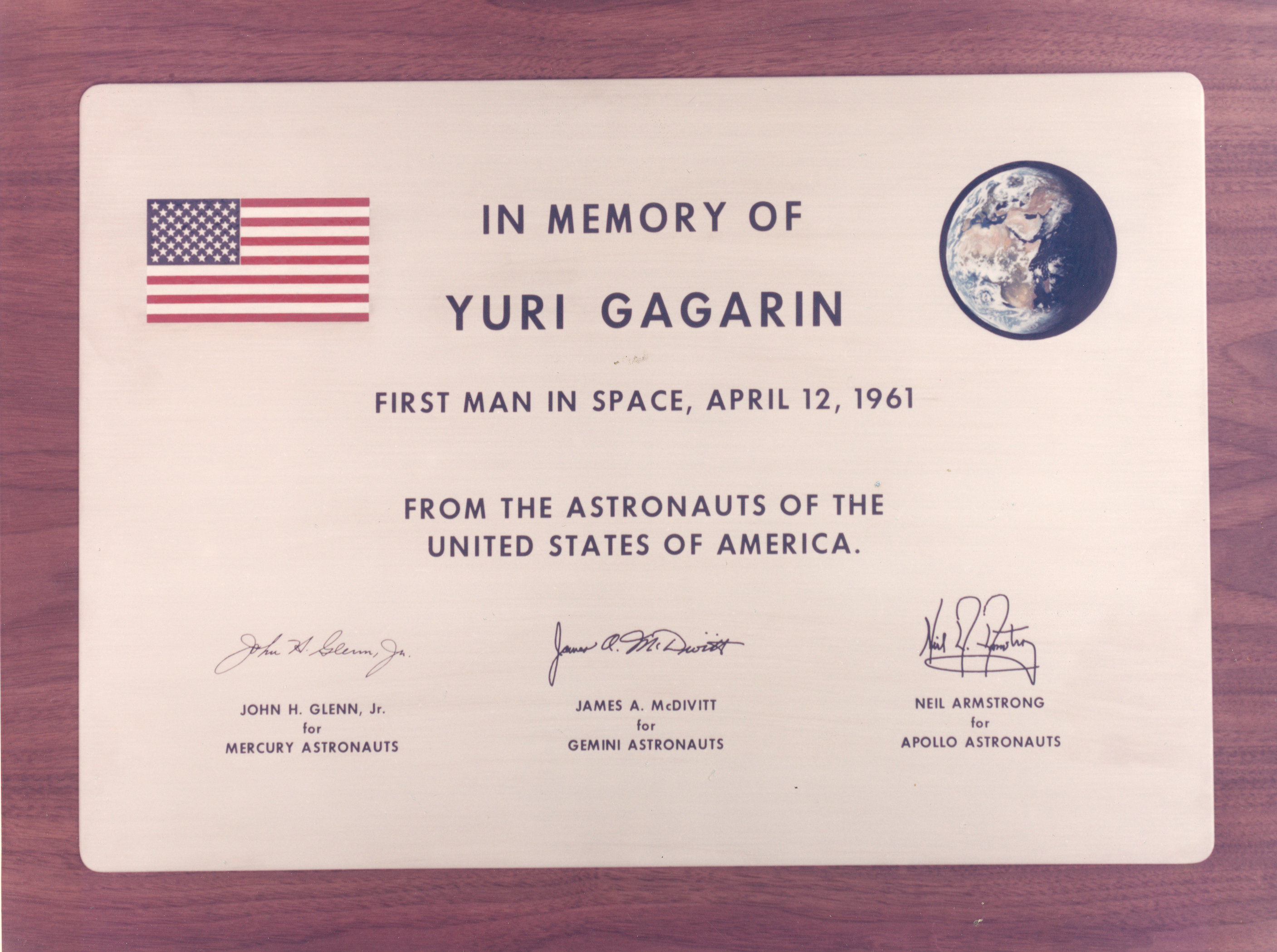 Dr. George M. Low, acting administrator of NASA, presented to the USSR on January 21, 1971, a plaque in memory of Soviet Cosmonaut Yuri Gagarin who made the first flight into space on April 12, 1961. Accepting the plaque at the Moscow ceremony was Soviet Gen. Kuznetsov, commander of the USSR's Star City space base, where cosmonauts have been training since 1960. Gagarin, who made history with his 1 hour and 48 minute flight, lost his life in a training accident on March 27, 1968.